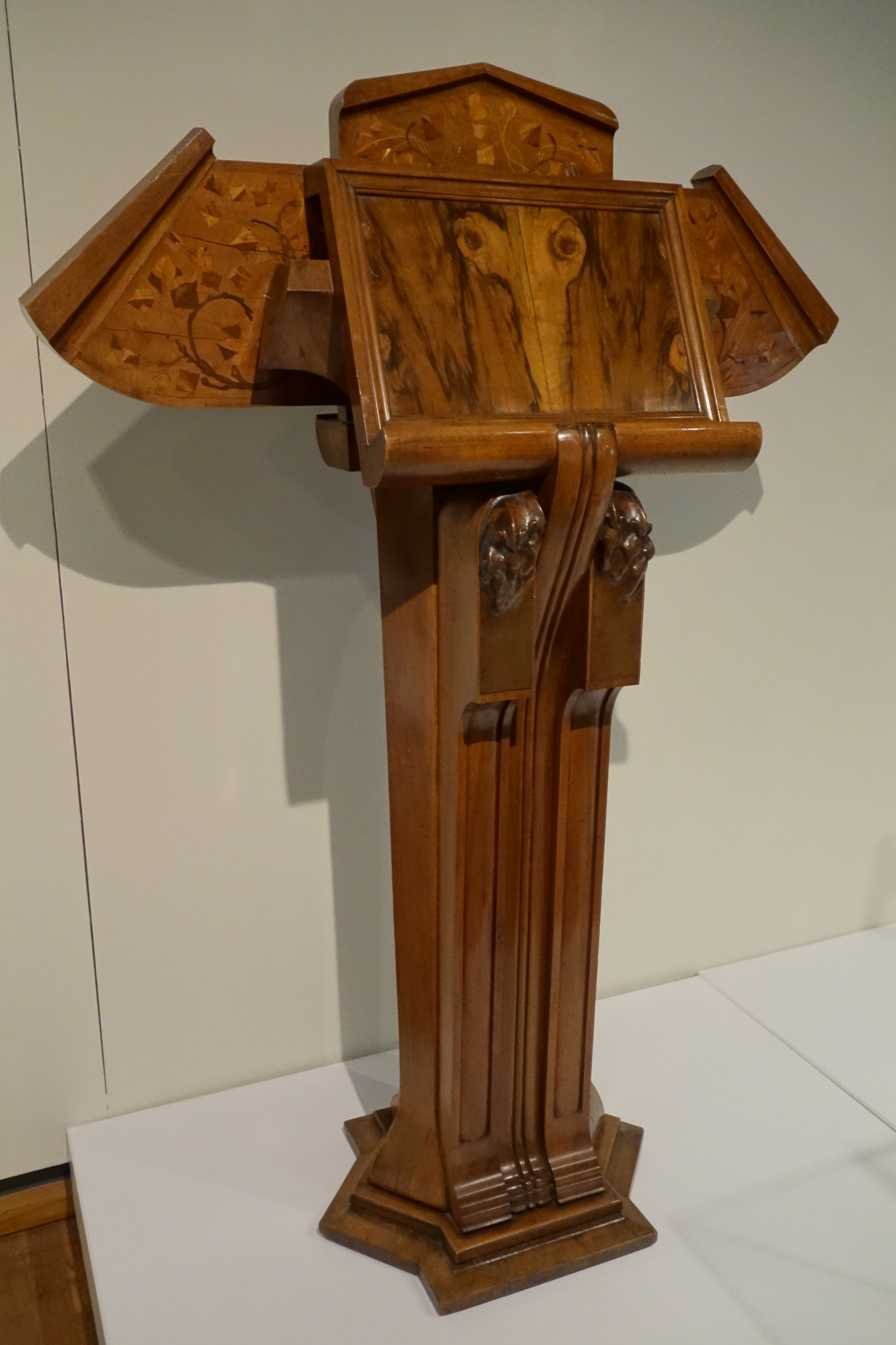 Walnut lectern by Duilio Cambellotti, 1923, with copper metalwork by Albert Gerardi. Montreal Museum of Fine Arts, inv. no. 2004.163.